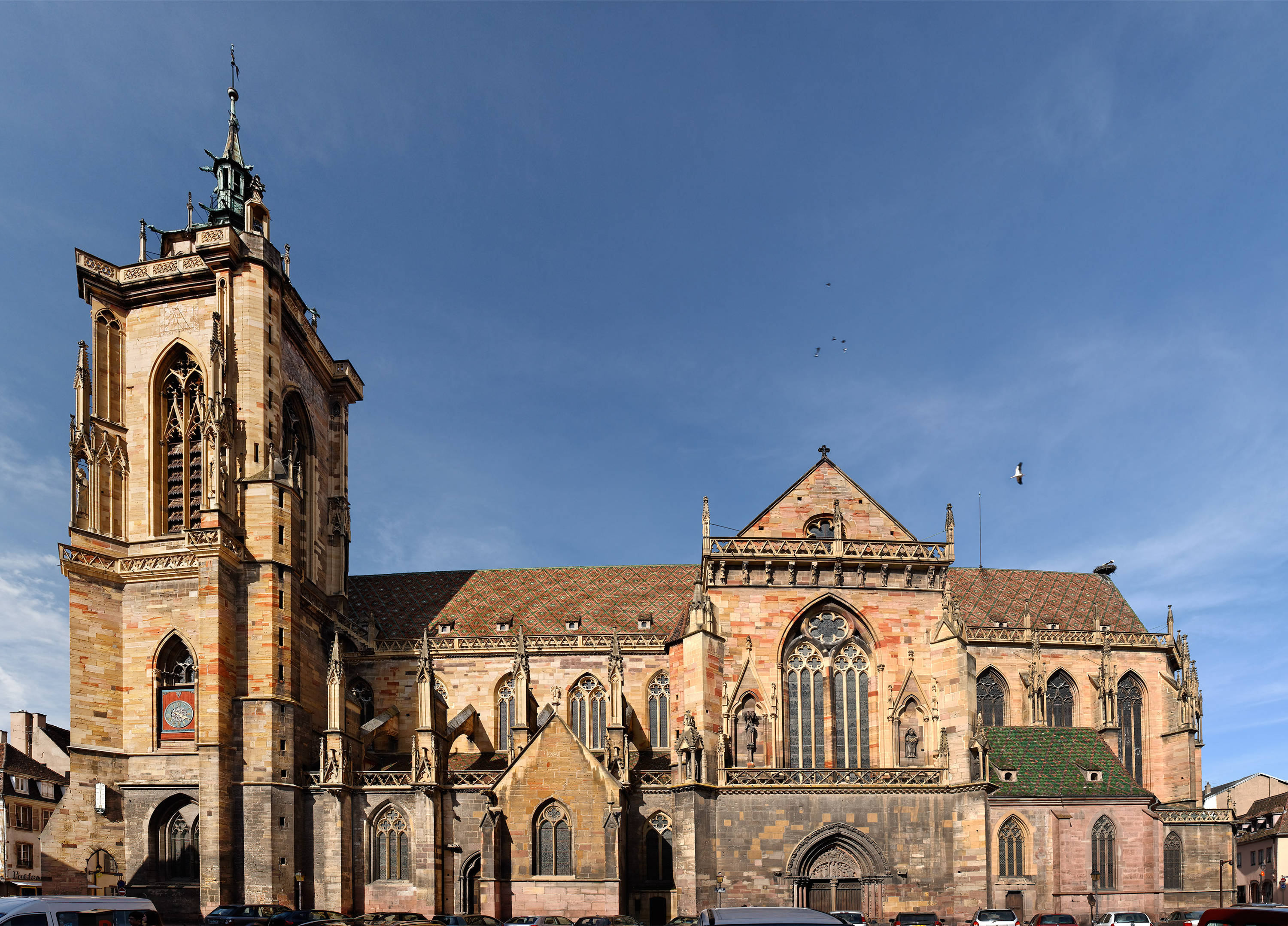 The St Martin's Church, Gothic church built during the 13th and 14th centuries in Colmar, Alsace, France.